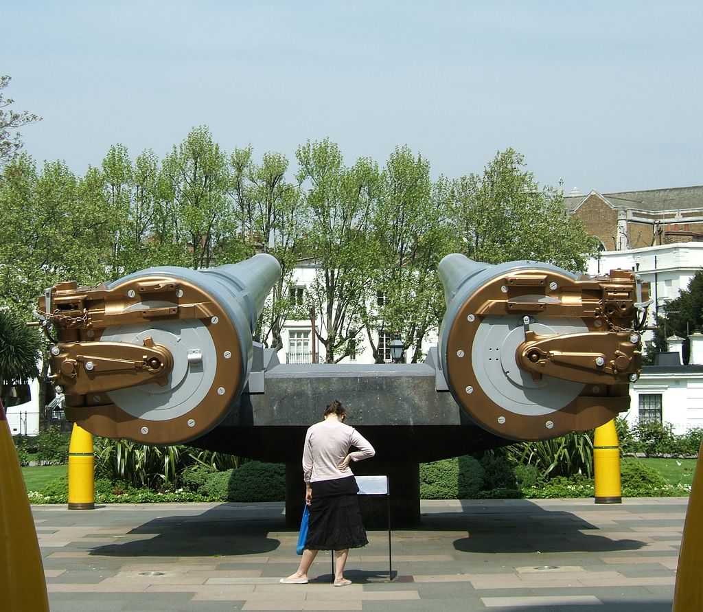 Breech view #1 of British 15 inch naval guns from HMS Ramillies (left) and HMS Resolution (right), outside the Imperial War Museum, London.